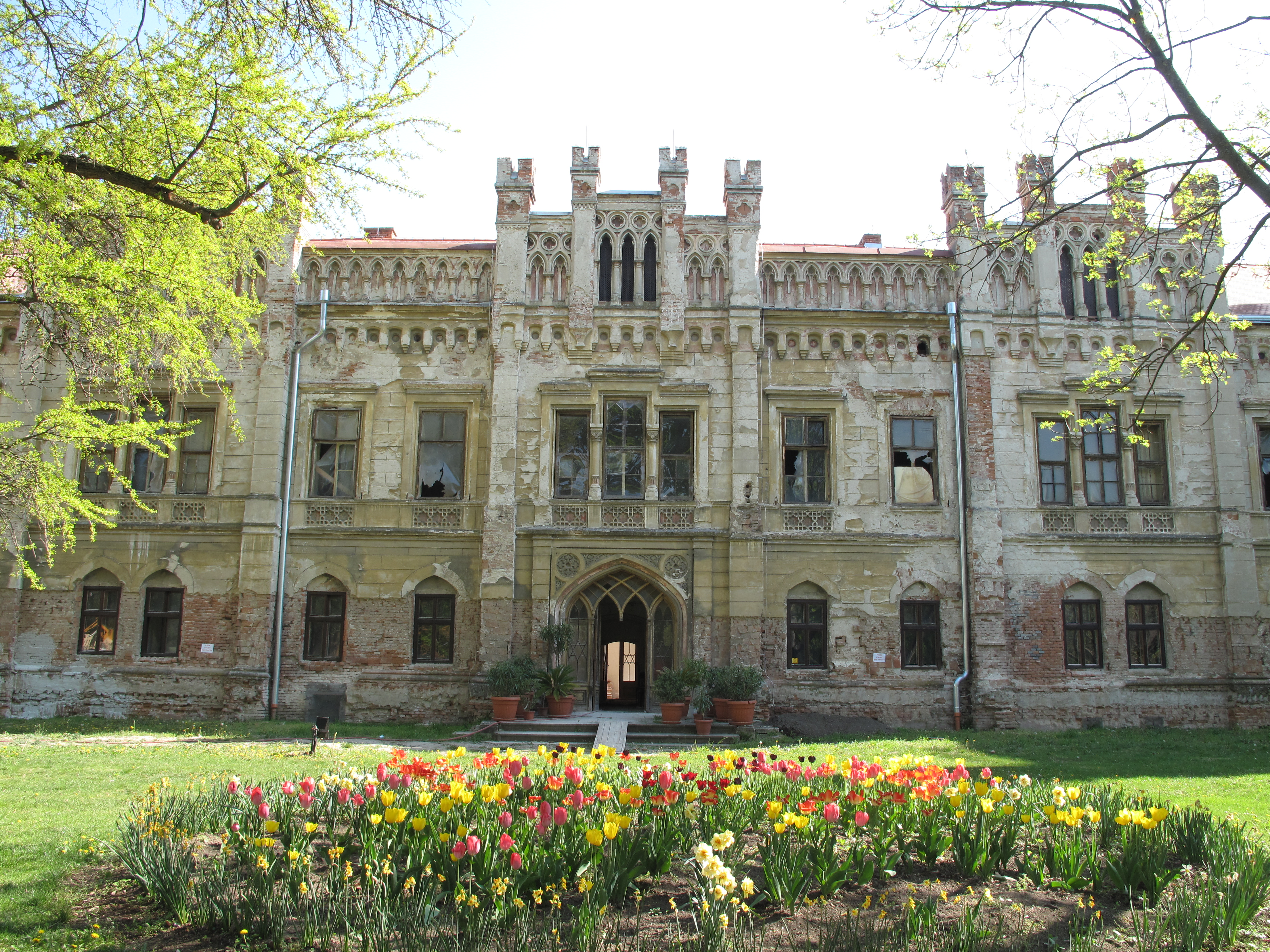 west side enterance